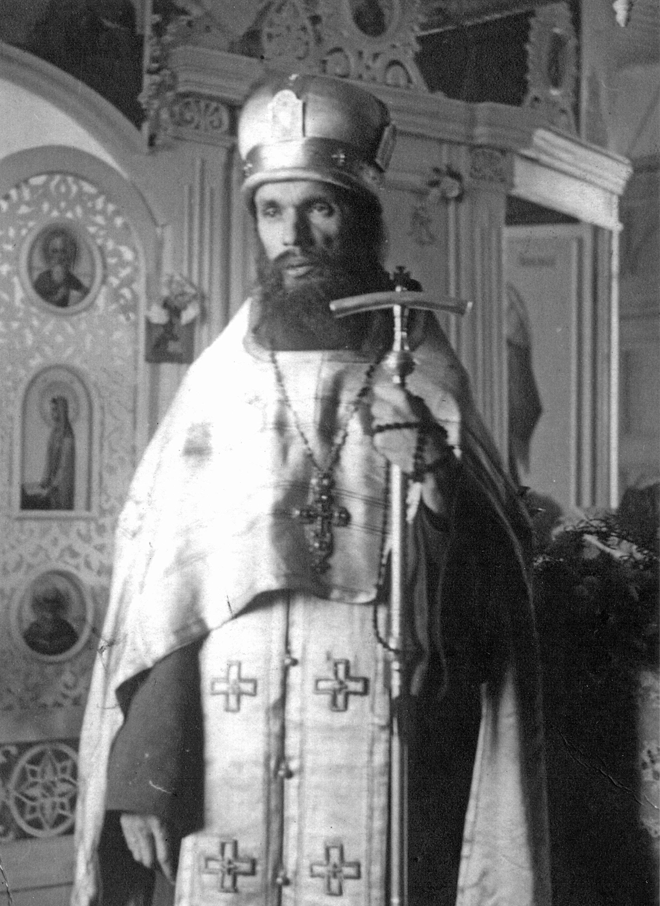 Archimandrite Philaret (Voznesensky) in 1953